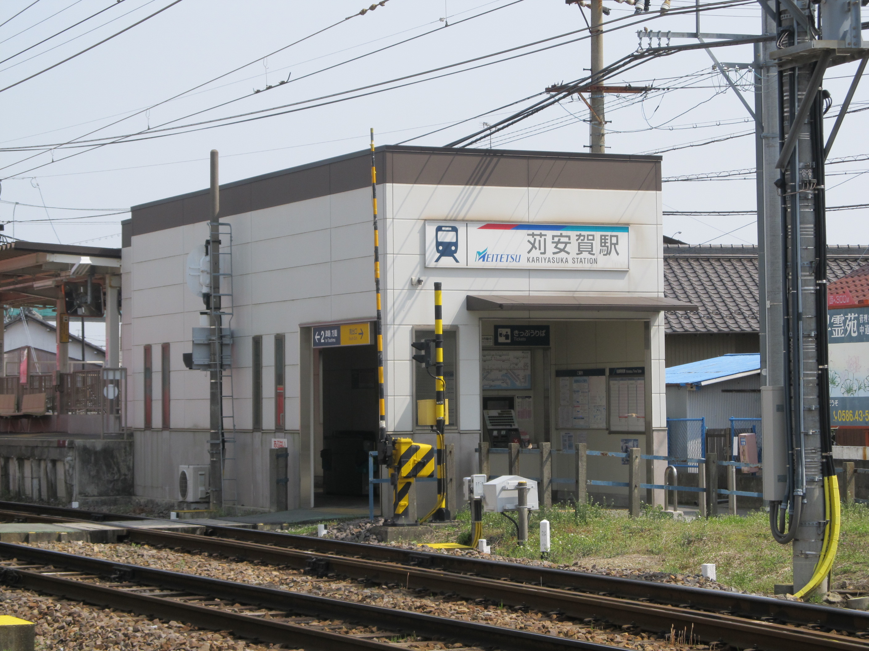 Nagoya Railroad Bisai Line Kariyasuka Station Building (for Tsushima).